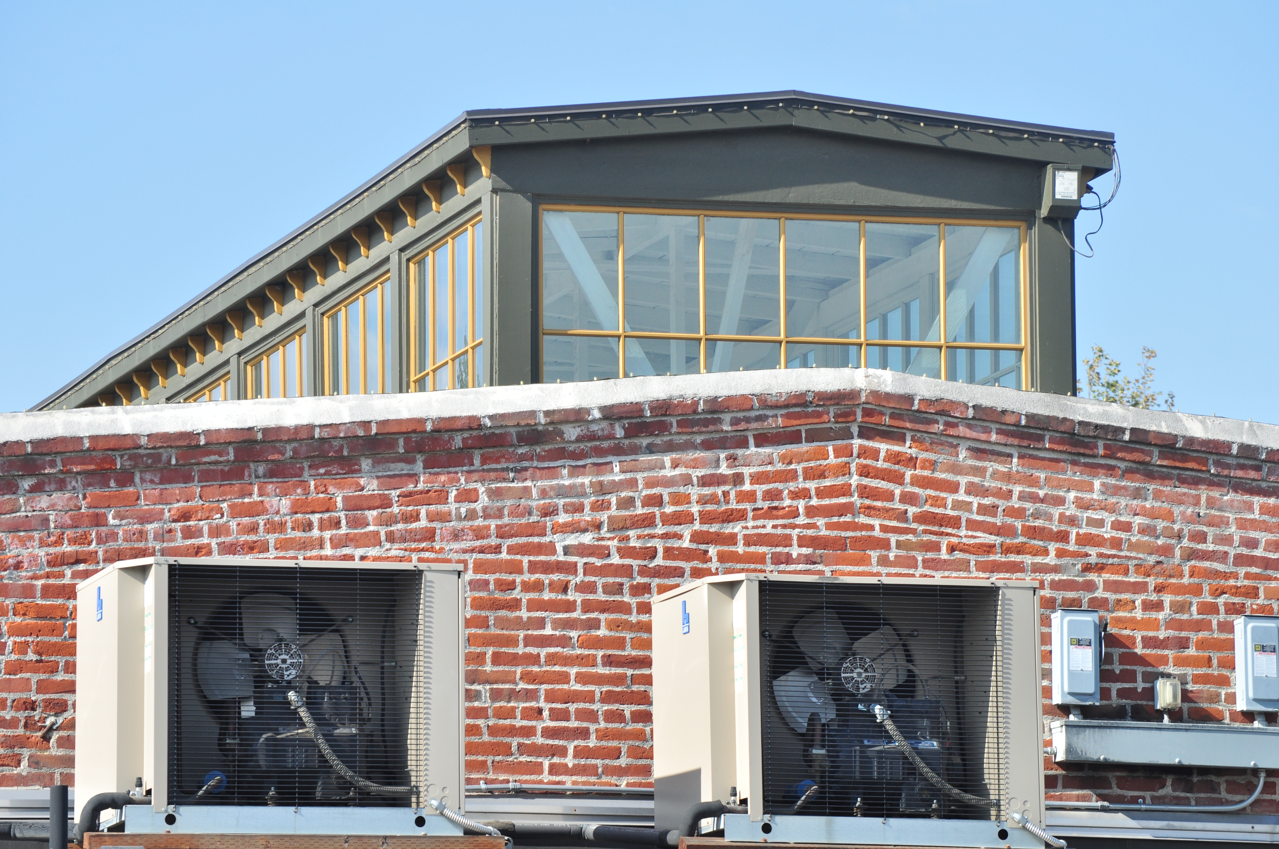 Monitor along roof ridge, former Whitehouse-Crawford Planing Mill, 212 N. 3rd Ave., Walla Walla, Washington, U.S. The building is now Seven Hills Winery and Whitehouse-Crawford restaurant.